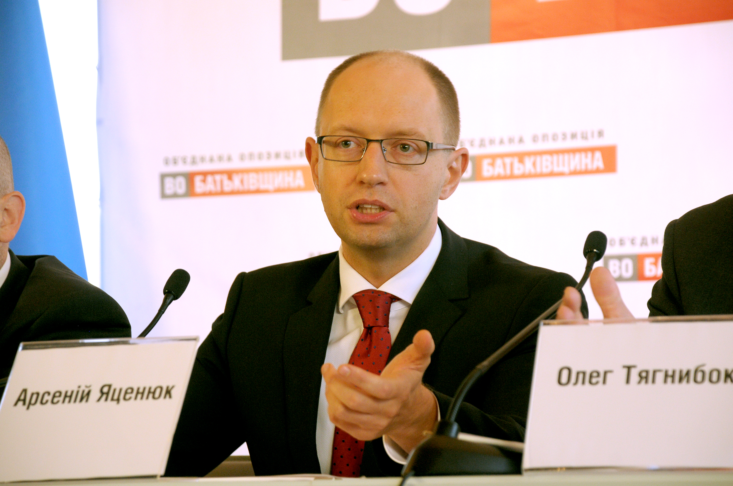 Arseniy Yatsenyuk, Ukrainian politician, member of the Ukrainian Verkhovna Rada, former speaker of the parliament and minister